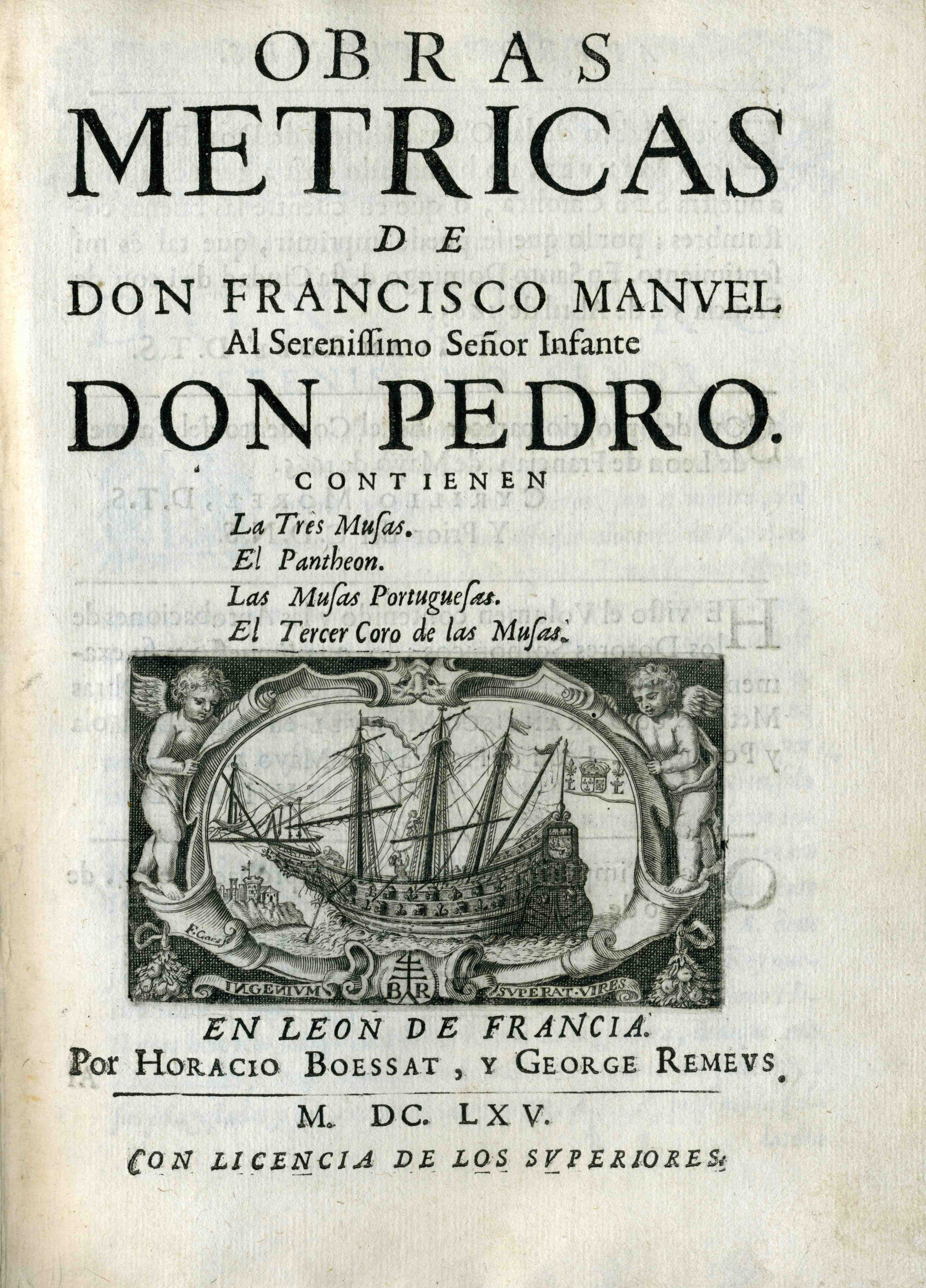 first edition of Obras Métricas, from Francisco manuel de Melo. Lyon 1665